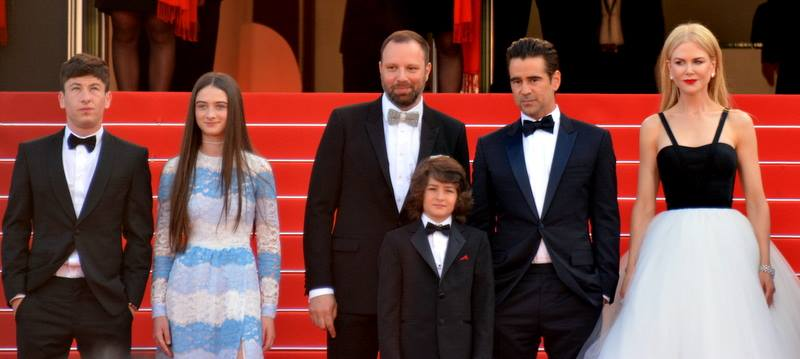 Cast and crew of "The Killing of a Sacred Deer" at the Cannes film festival